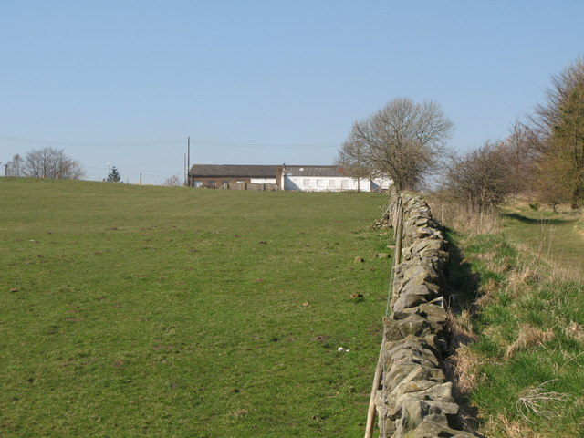 (The site of) Milecastle 22 (Portgate), near to Halton, Northumberland, Great Britain. The site of the milecastle is (just) visible as a low platform about 200m east of the roundabout. Photo taken from the NY9868 : One-sided stile on Hadrian's Wall National Trail (photo by Oliver Dixon).